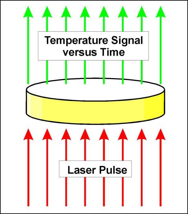 LFA simplified measurement principle